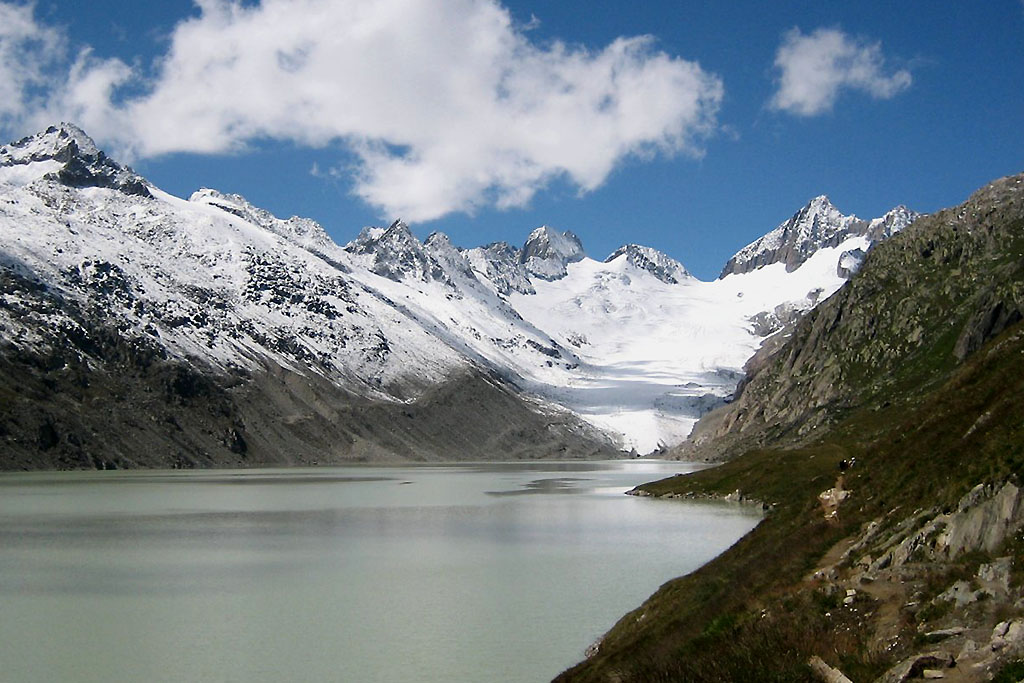 Oberaarhornglacier. Left Blatthörner 3040m, Löffelhorn 3095m, Roossehörner and Roosseejoch 3132m, Oberaarrothorn 3477m, Nollen 3402m,Oberaarjoch and Oberaarhorn .